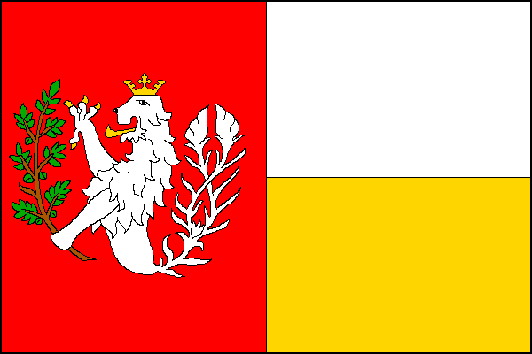 Municipal flag of Brázdim , District Praha-východ, Czech Republic